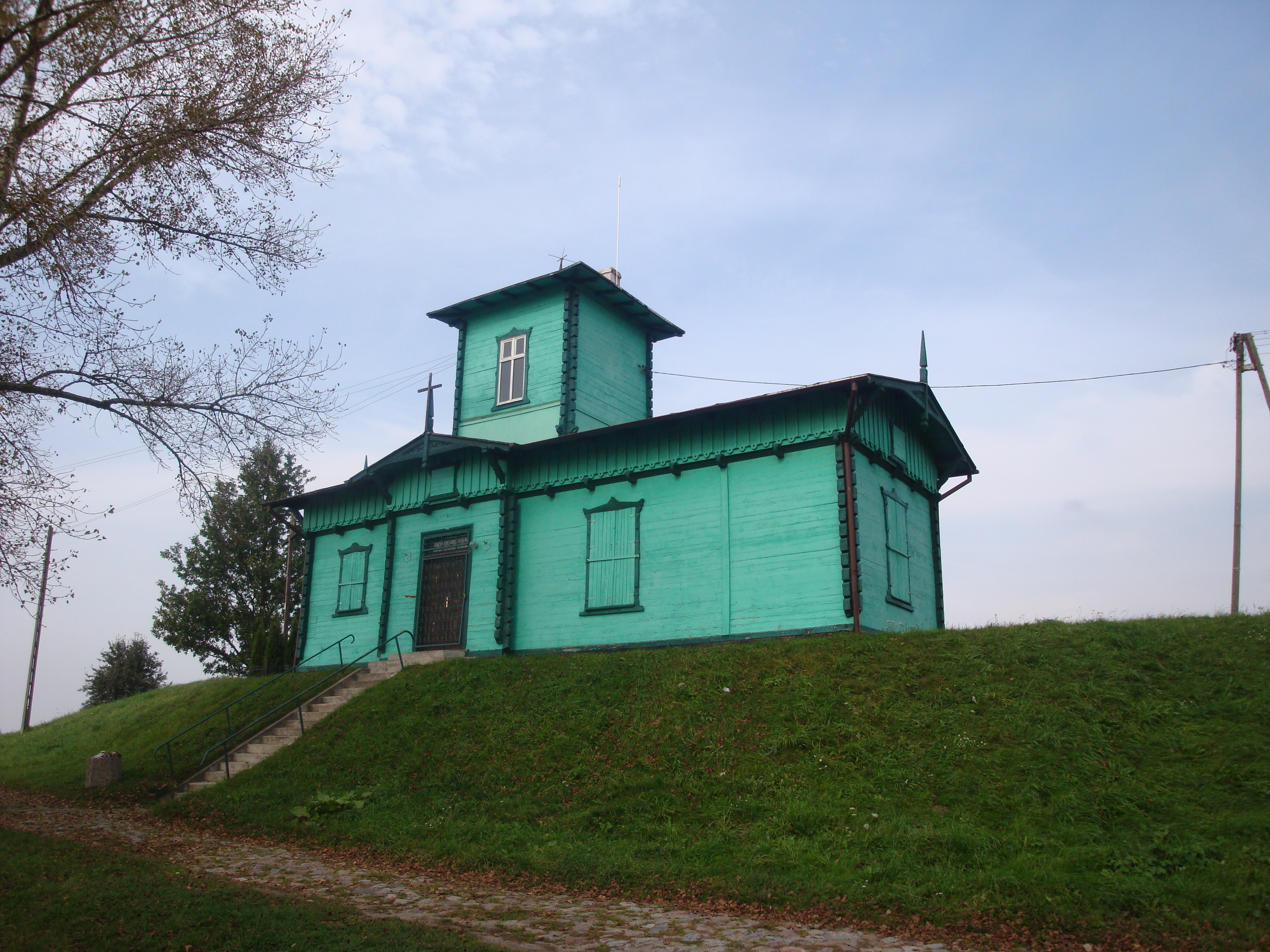 Stream Gauging Station on the river Vistula in Korzeniewo, Poland